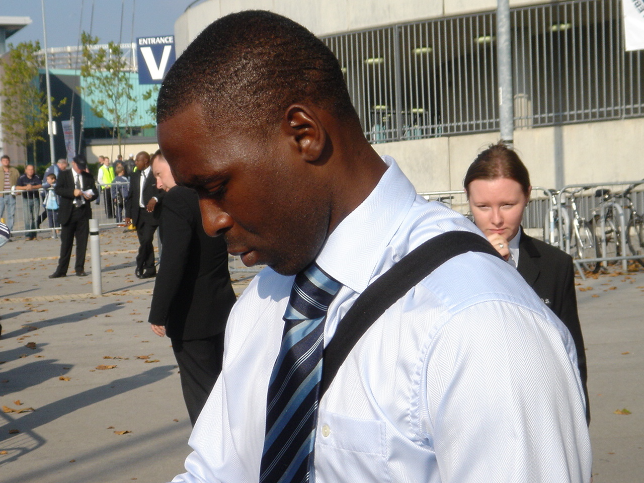 Andy Cole signing for fans, as a Manchester City player, outside City of Manchester Stadium, October 2005